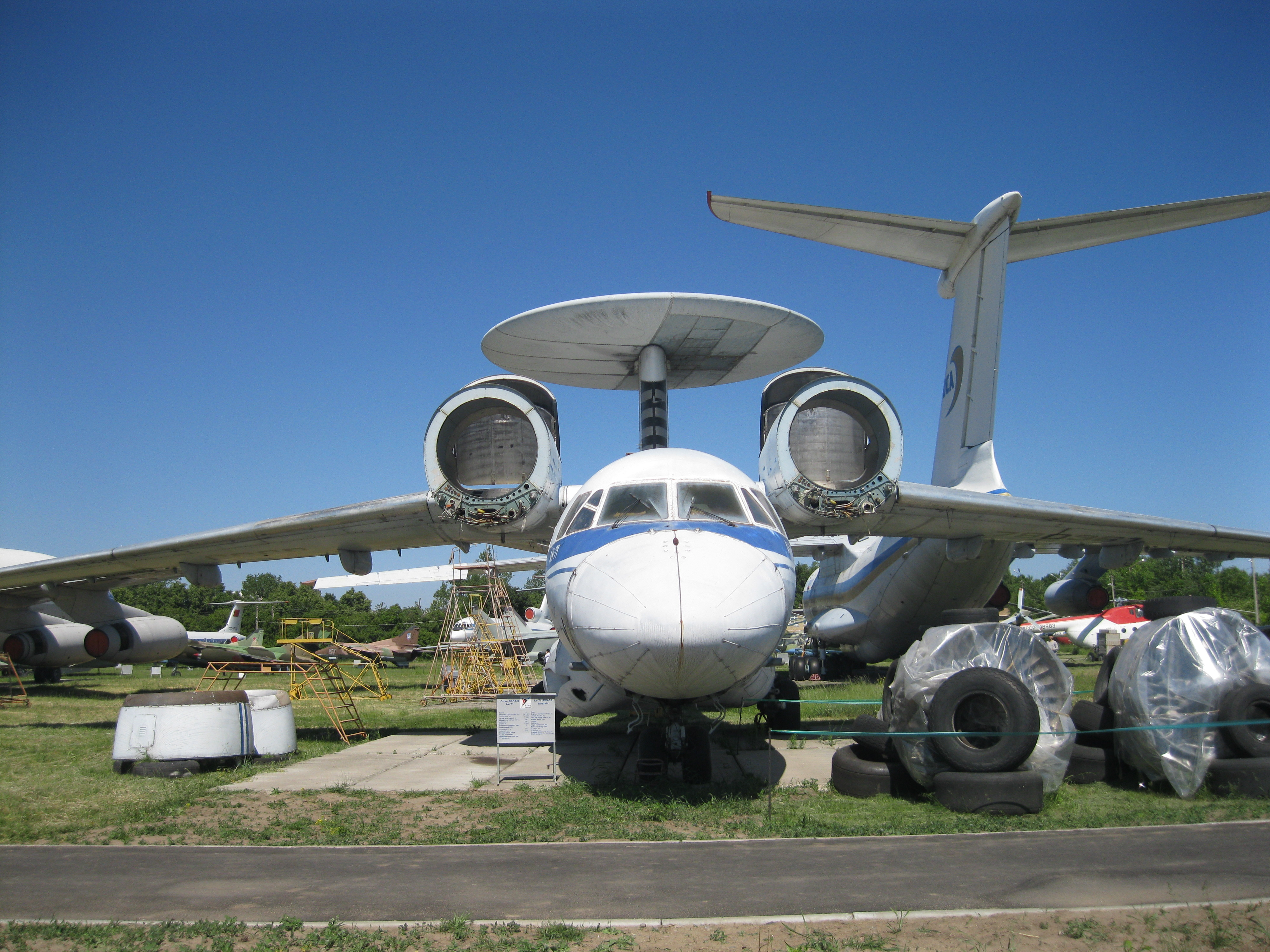 AWACS aircraft An-71 at Ukraine State Aviation Museum, Kyiv